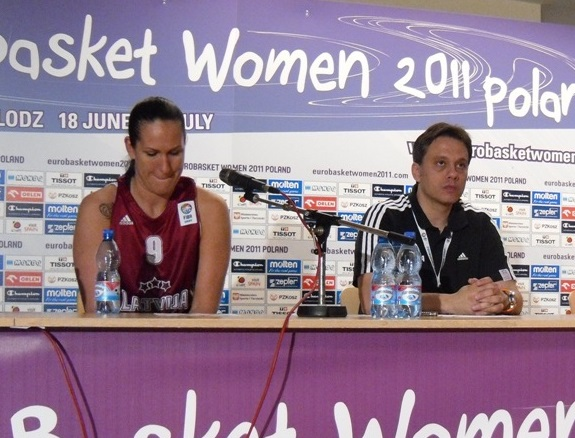 The Latvian women's national basketball team coach, George Dikeoulakos, and player, Liene Jansone, participating in the FIBA EuroBasket Women 2011 contest.